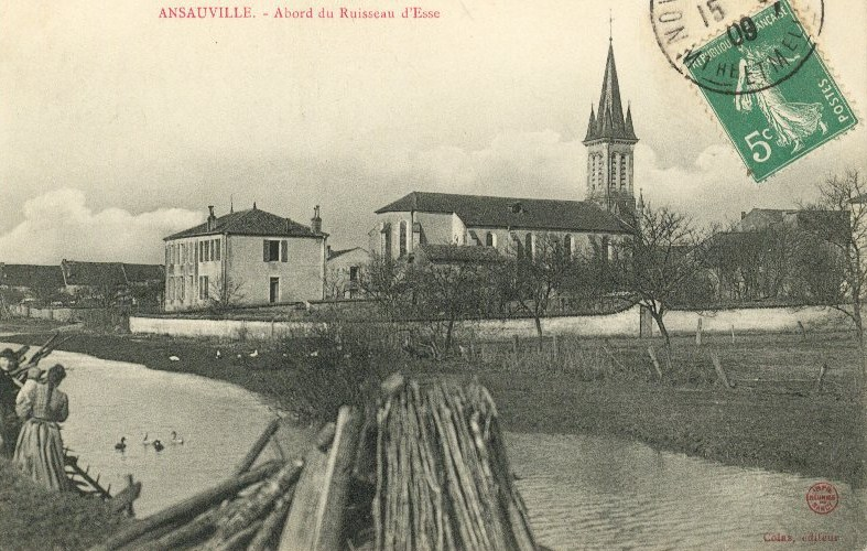 Old post card of Ansauville (Meurthe-et-Moselle ; France). Accès of the Esse river.